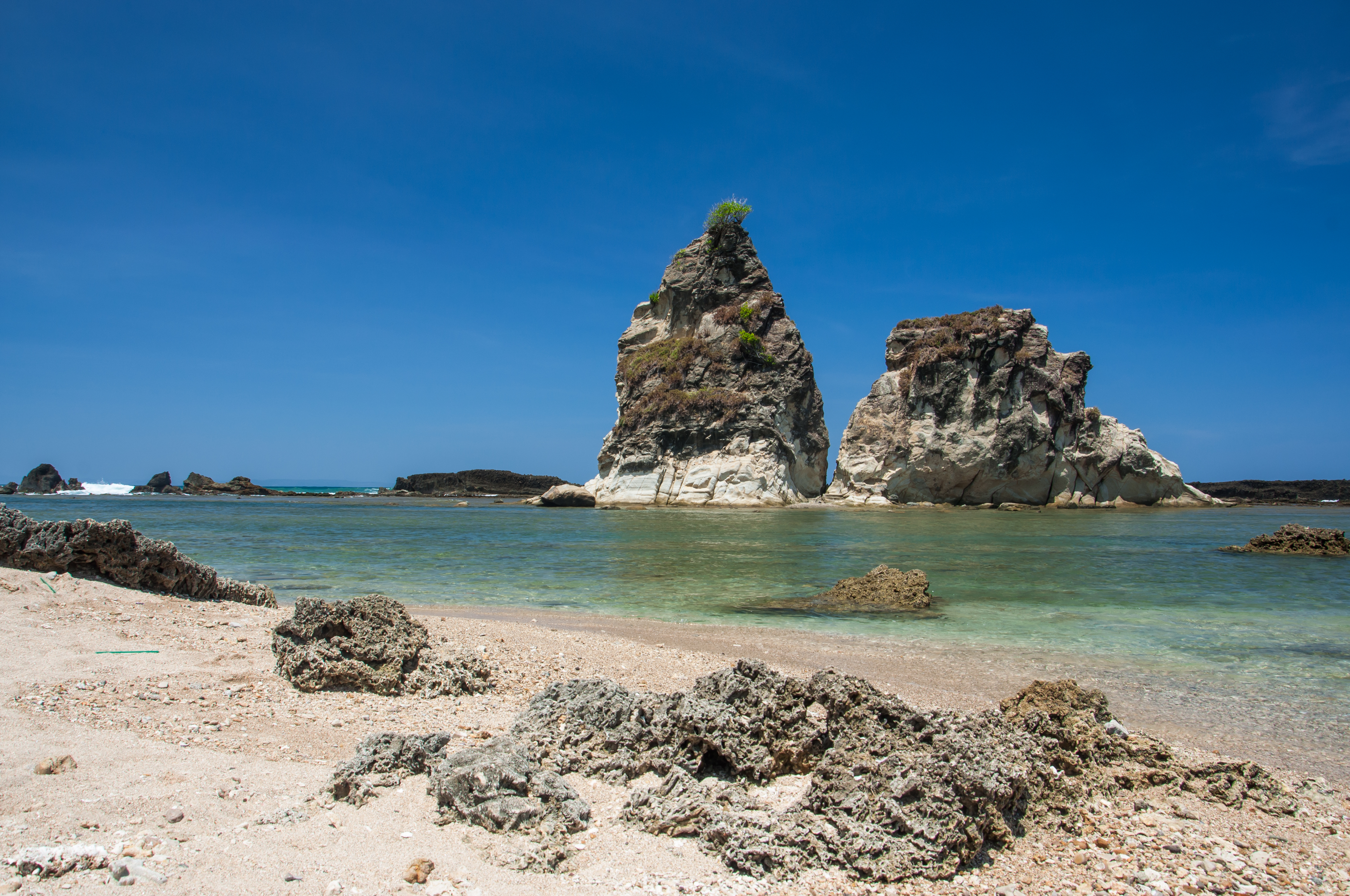 Tanjung Layar beach is a beach in the Sawarna tourist village, Lebak Regency, Banten.